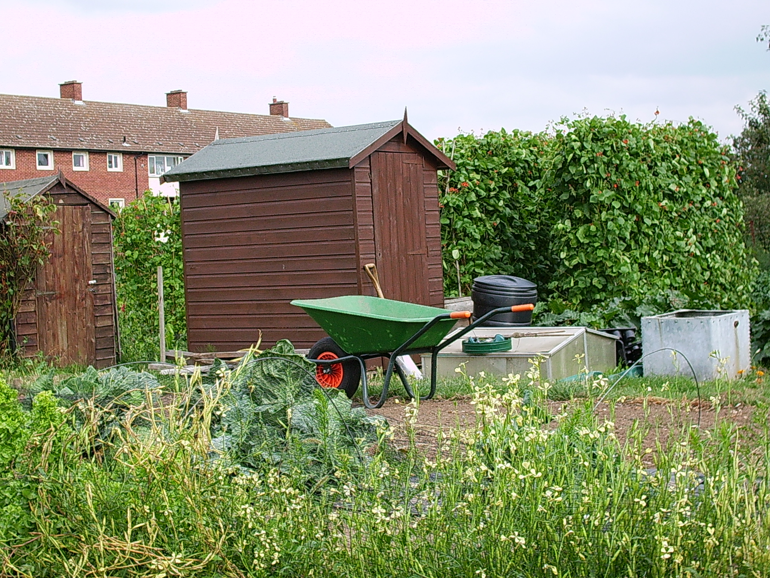 Sheds at the Elmgrove allotments in Walton-on-Thames, Surrey. Author: Steve Block Taken: 15 August 2006. Taken with: Traveler DV5040. Image sensor: 1/2.5" CCD sensor Effective pixels: 5.0 Mega pixels, 8.0 Mega pixels (FW interpolation) Width: 2560 pixels Height: 1920 pixels Resolution: 72 pixels/inch Size: 2.2m